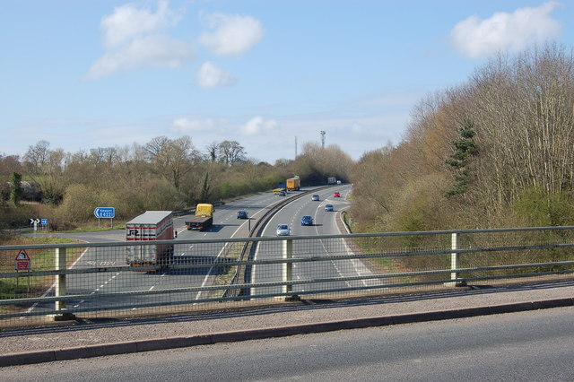 Junction 3 of the M50 near Gorsley View looking westwards from the bridge taking the B4221 over the M50. Both exits of junction 3 are visible.